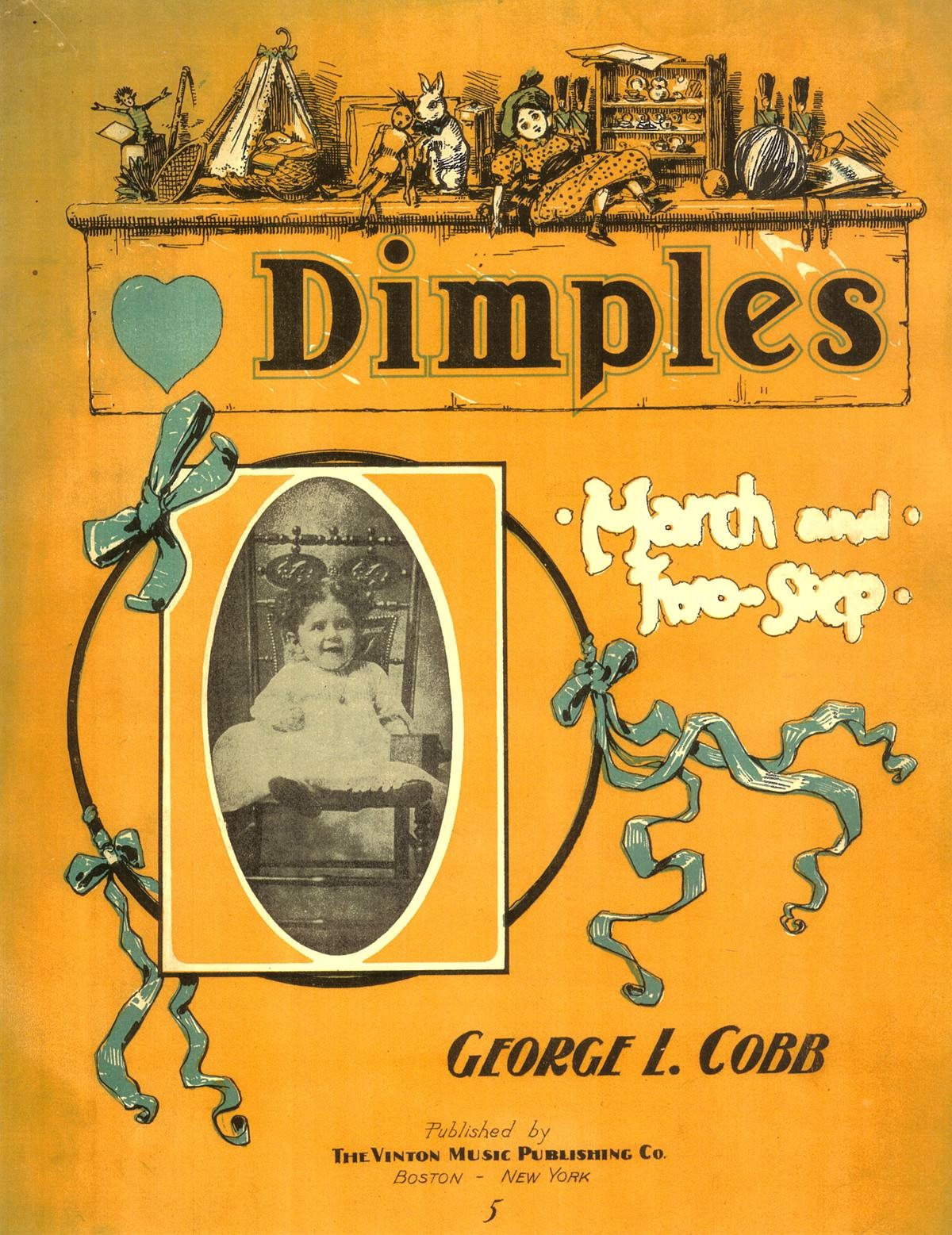 Dimples, 1905